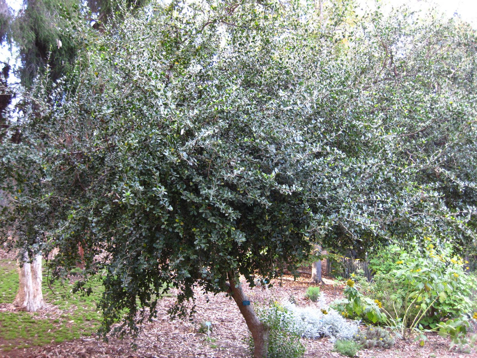 Photographed Mildred E. Mathias Botanical Garden at UCLA (Los Angeles, California) in November